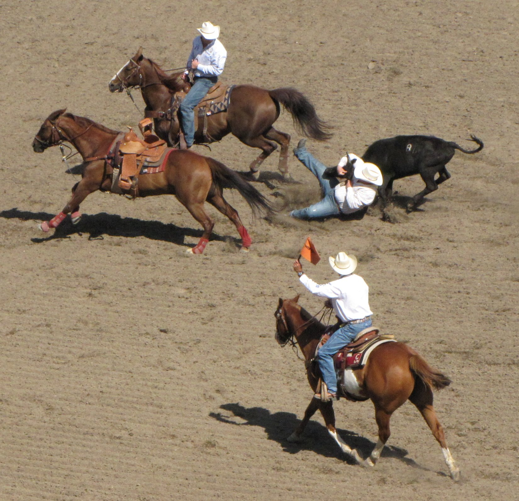 Straws Milan Steer wrestling at the Calgary Stampede.